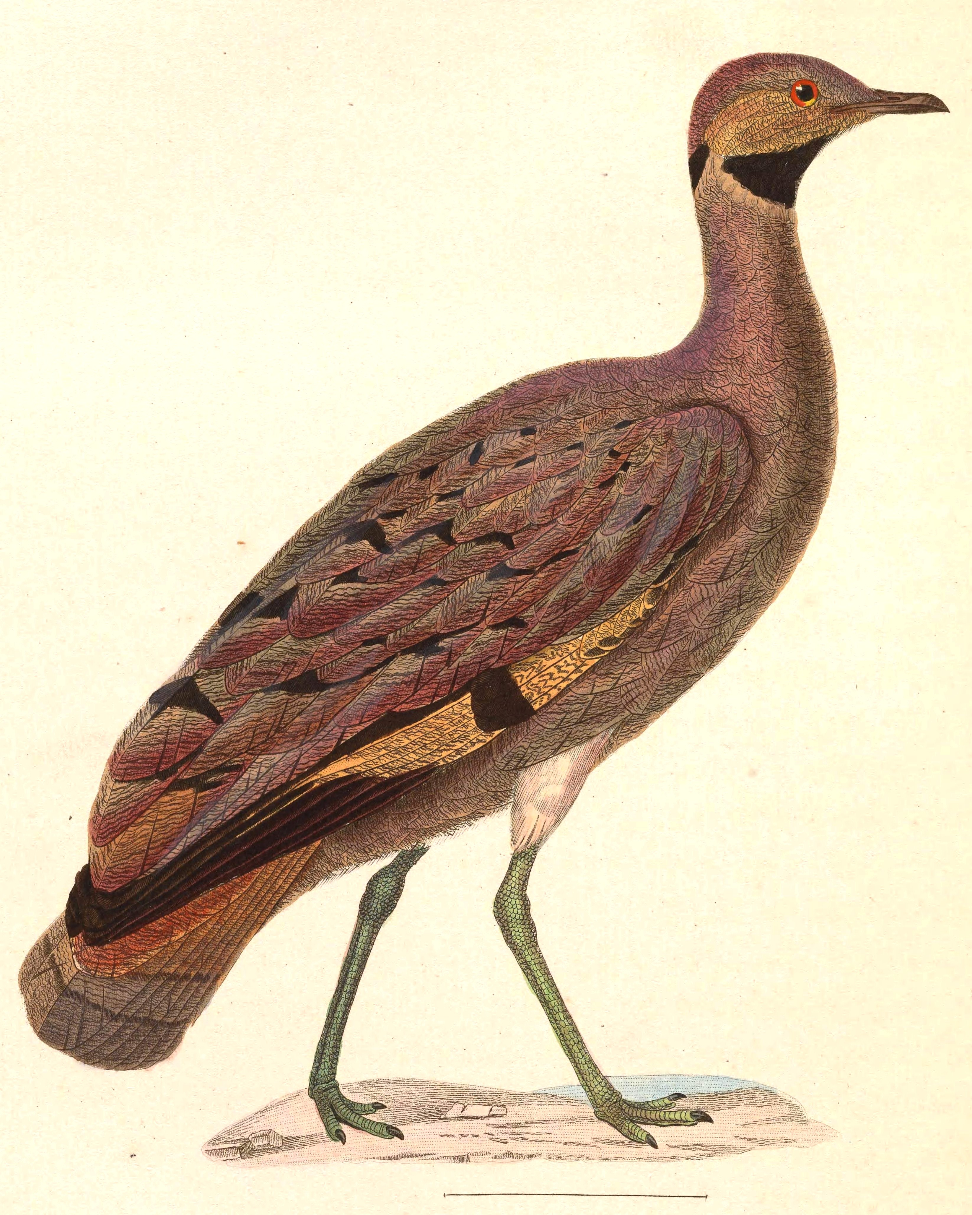 « Otis scolopacea » = Eupodotis vigorsii (Karoo Korhaan) - adult male